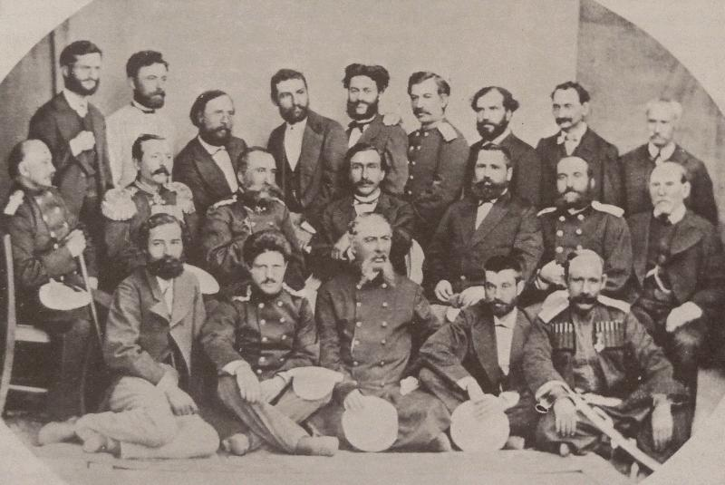 Ilia Chavchavadze in Dusheti